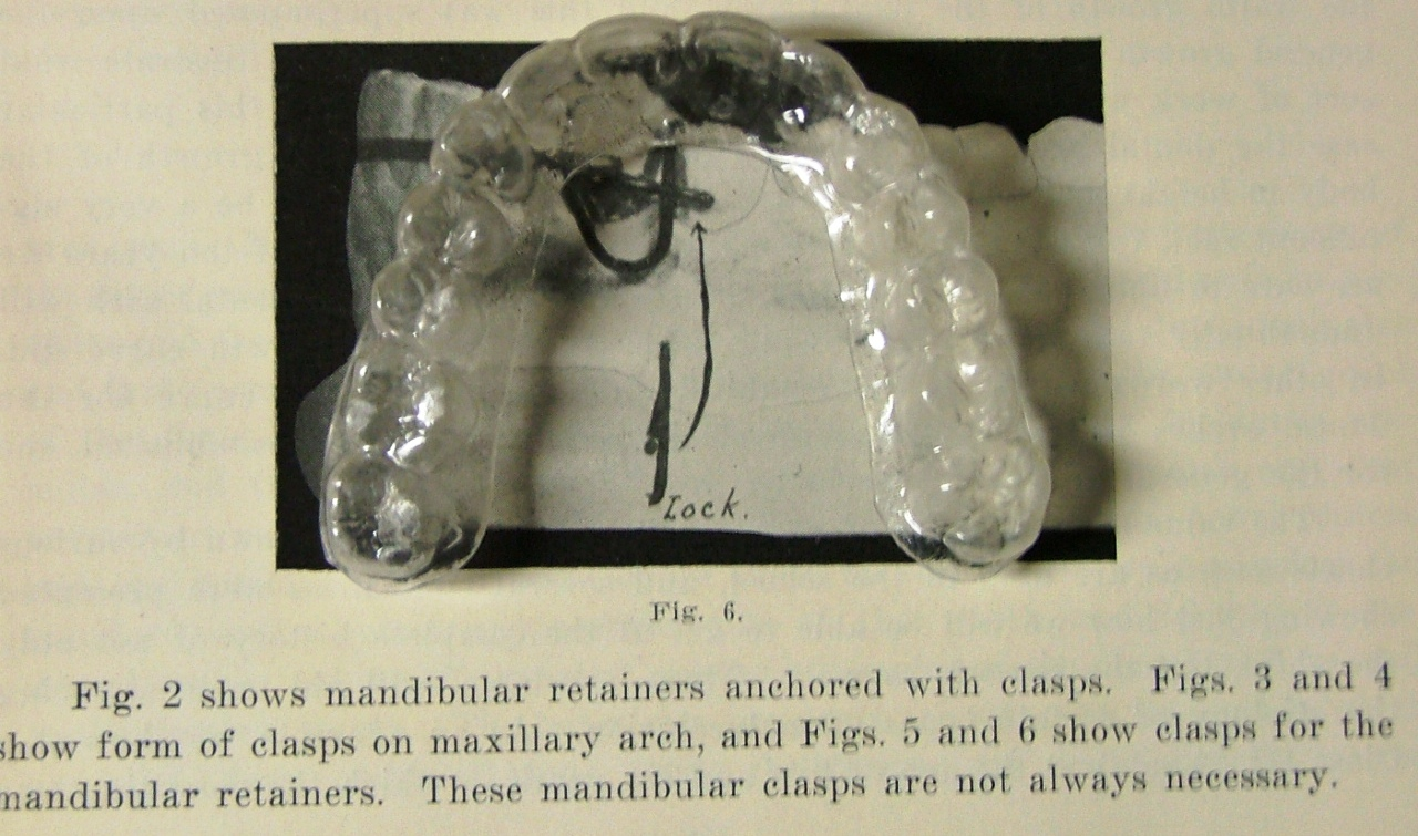 I took this picture of an "Essix-type" retainer. The text in the background is from a work with an expired copyright: C.A. Hawley, "The Removable Retainer (Exhibit)," in The First International Orthodontic Congress.